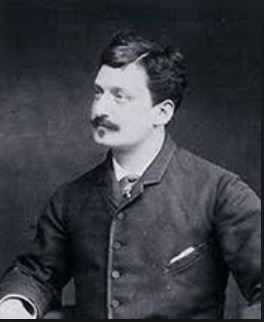 Italian painter Cesare Agostino Detti (1847-1914)